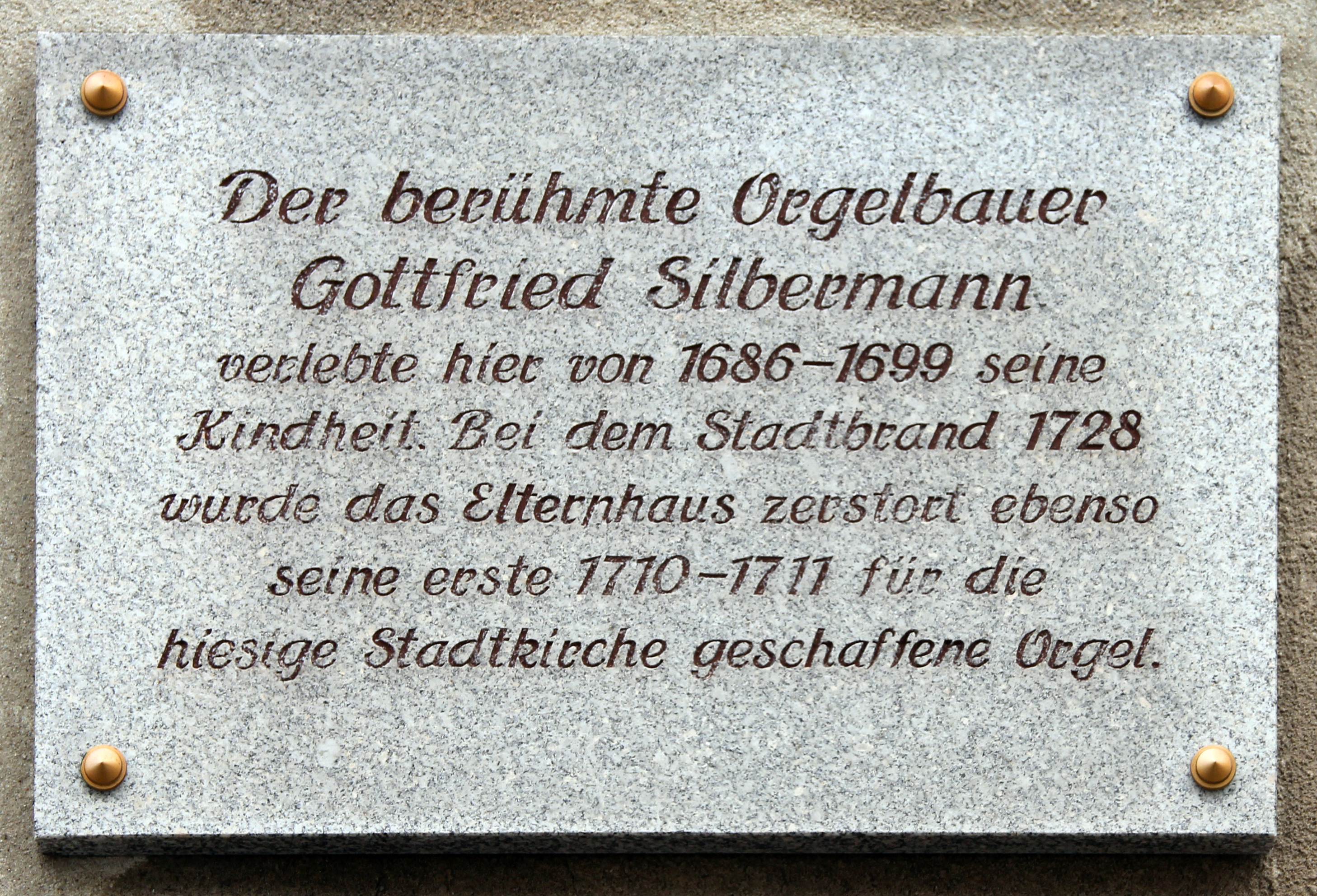 Memorial plaque, Gottfried Silbermann, Haingasse, Frauenstein (Erzgebirge), Germany